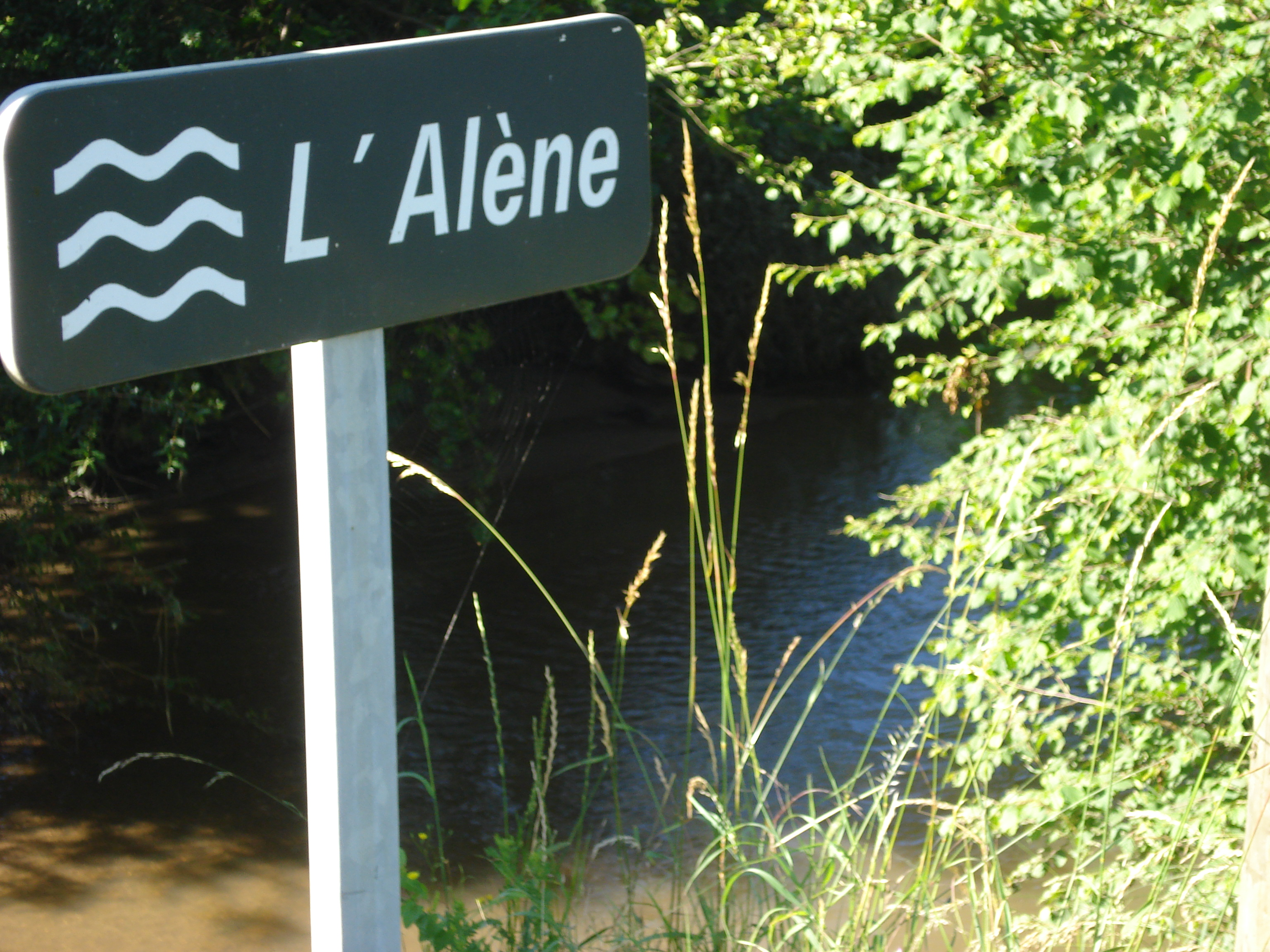 L'Alène en amont de Luzy